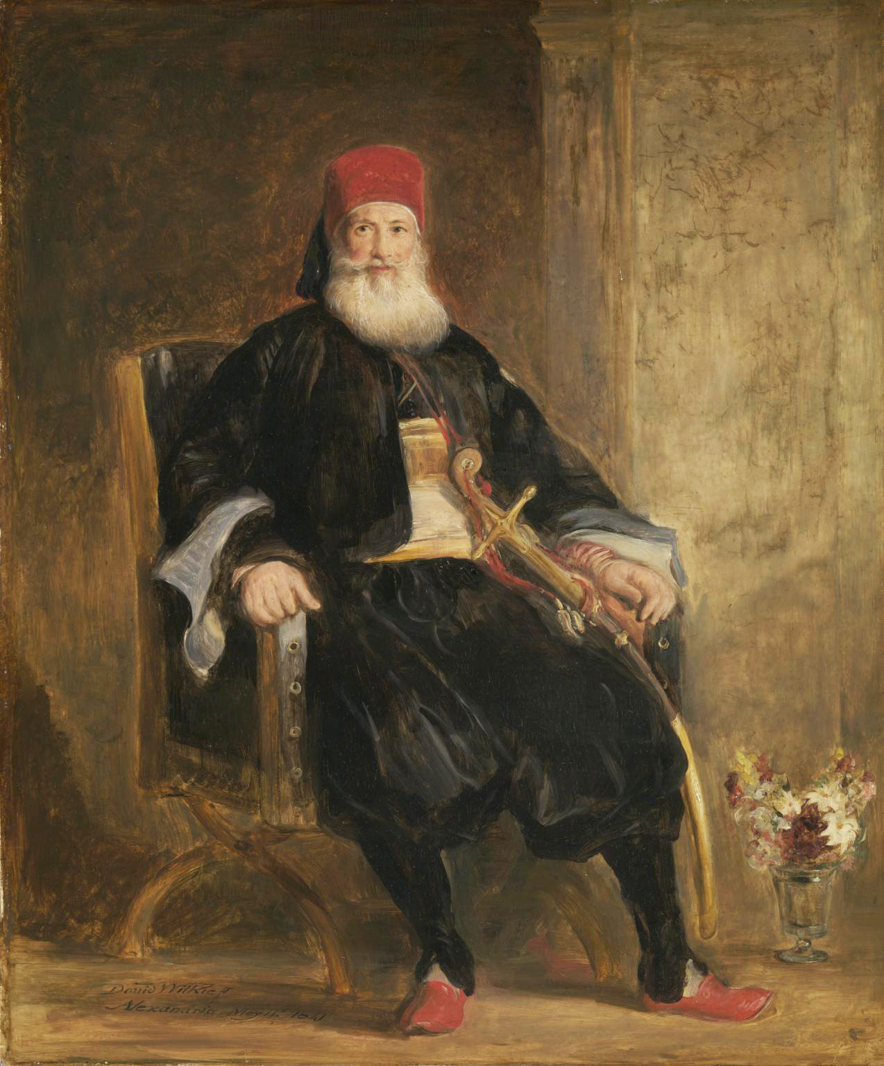 This is a portrait of the Albanian Khedive (ruler) of Egypt, Muhammad Ali (1769–1849). He was a commander in the Ottoman army and had seized power after a civil war. Muhammad Ali oversaw dramatic reforms of Egyptian military, economy and culture. He commissioned this work from Wilkie. Here, he presents himself in traditional Islamic dress but sitting in a European chair and wearing a fez rather than the traditional turban. Wilkie met Muhammad Ali in Egypt on his return journey from travels in the Middle East. This was Wilkie’s last painting, he fell ill and died on his journey back to Britain.